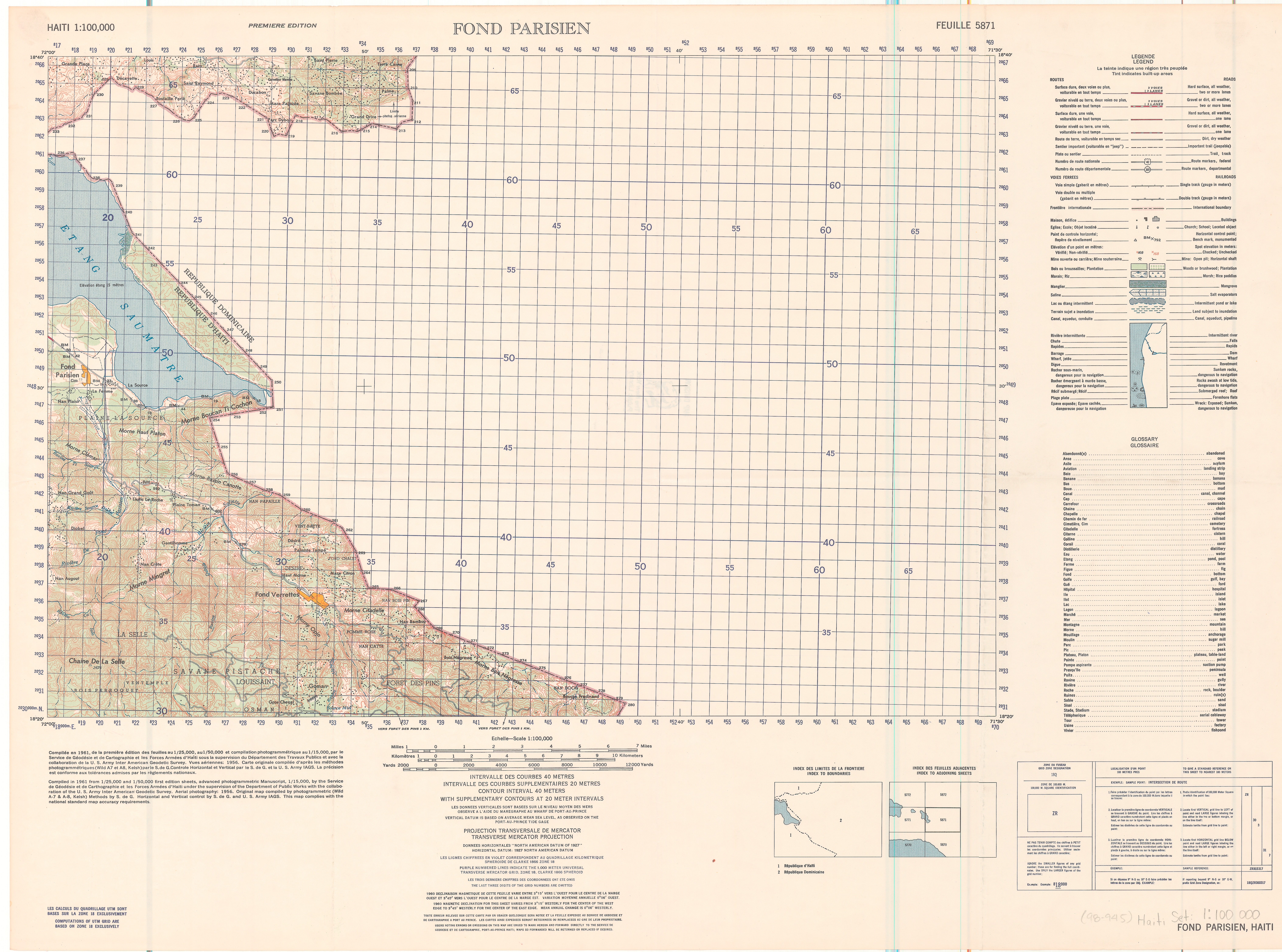 Some maps lack series statement. Some maps printed by Army Map Service, Corps of Engineers. Standard maps series designation: Series E632 Includes index to adjacent sheets, glossary, explanatory chart. Some maps have index to boundaries. Language: English and French. Relief shown by contours and spot heights.